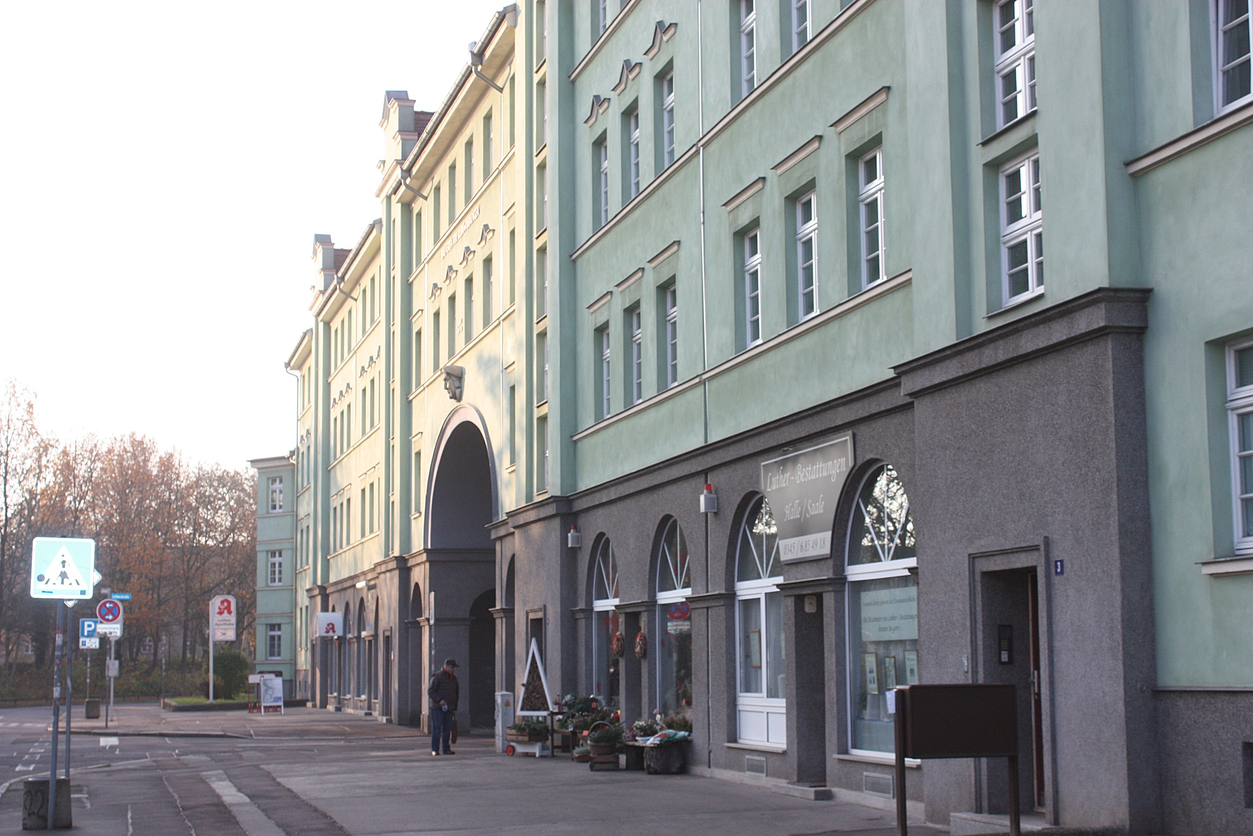 Halle Saale, the Lutherplatz